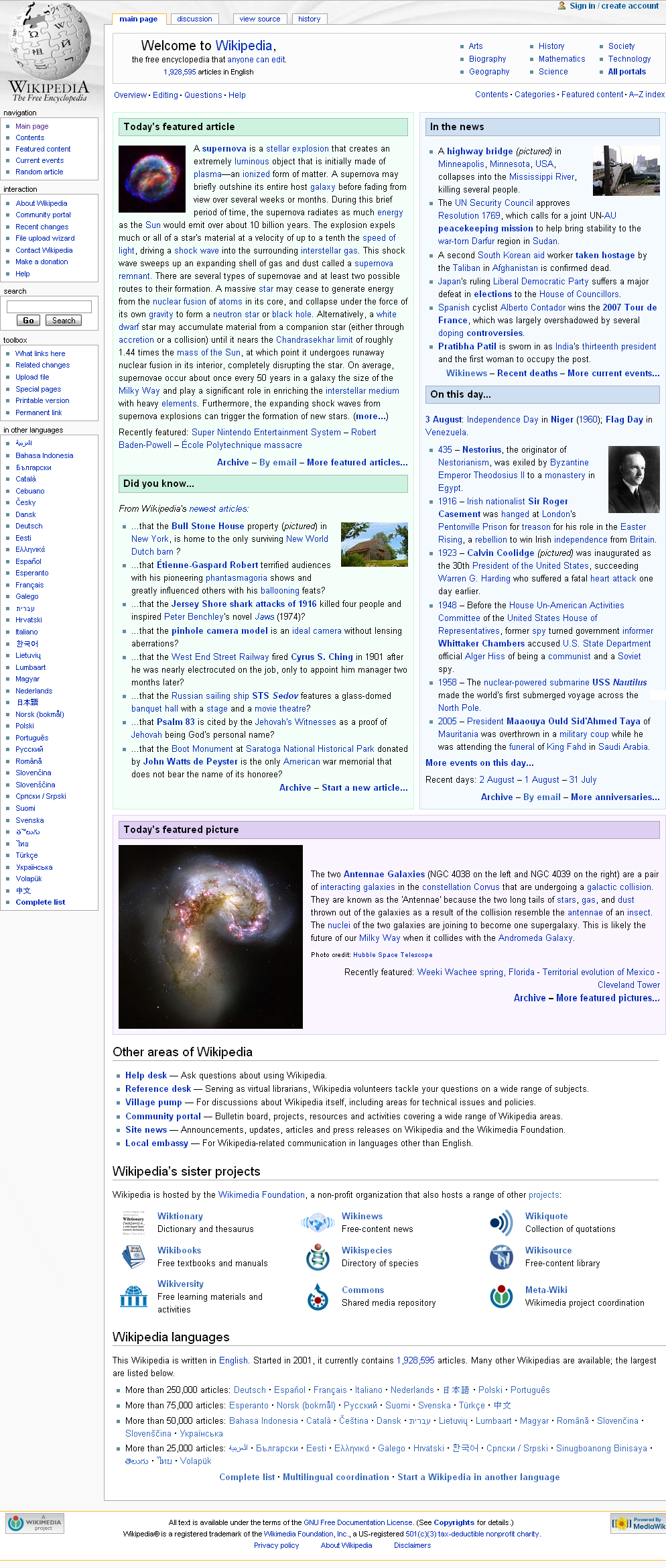 Screenshot of the English Wikipedia Mainpage on the 3rd August 2007.